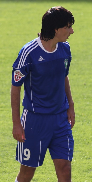 Sergey Kovalchuk